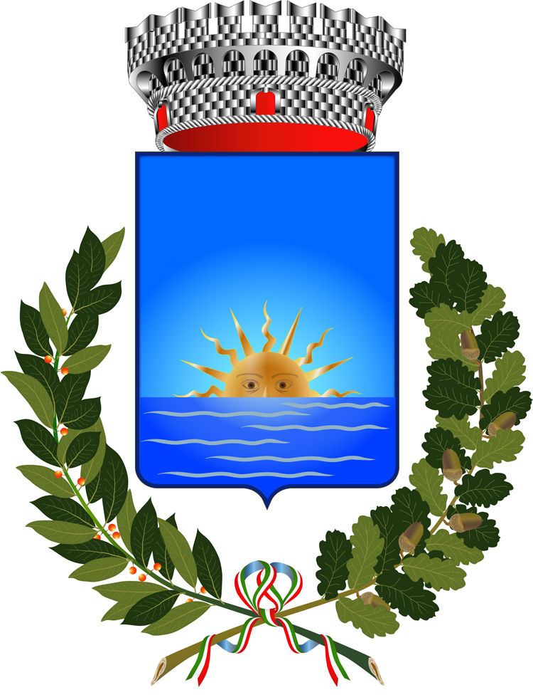 Coat of arms of Alba Adriatica (Teramo), Italy